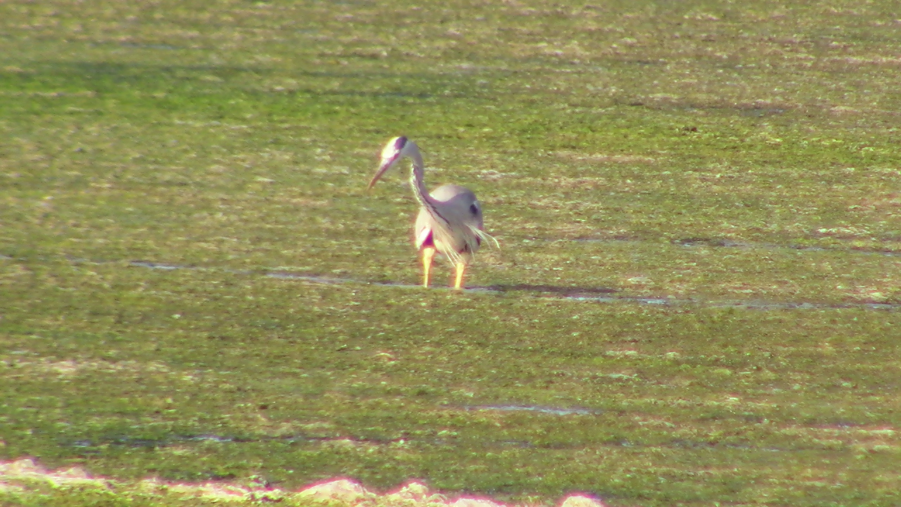 Sidi Moussa Lagoon Nature Preserve - View